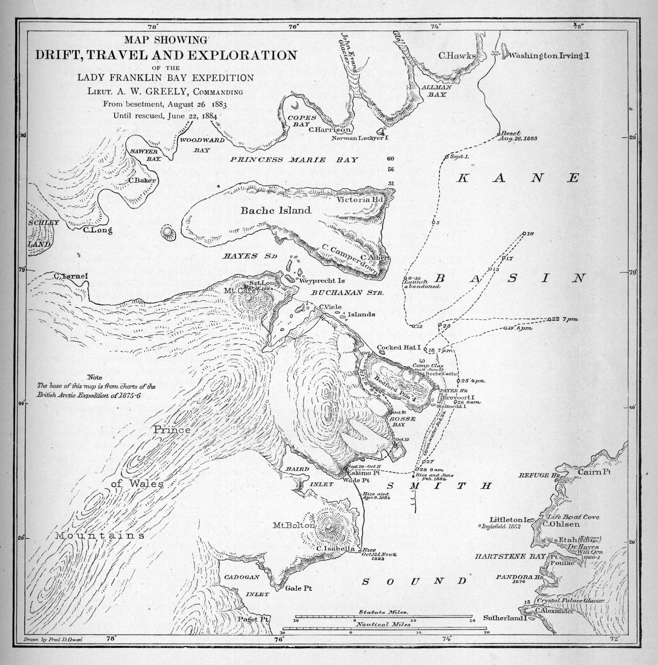 Plate from a publication of the first IPY (International Polar Year, 1882-1883) - see report for download